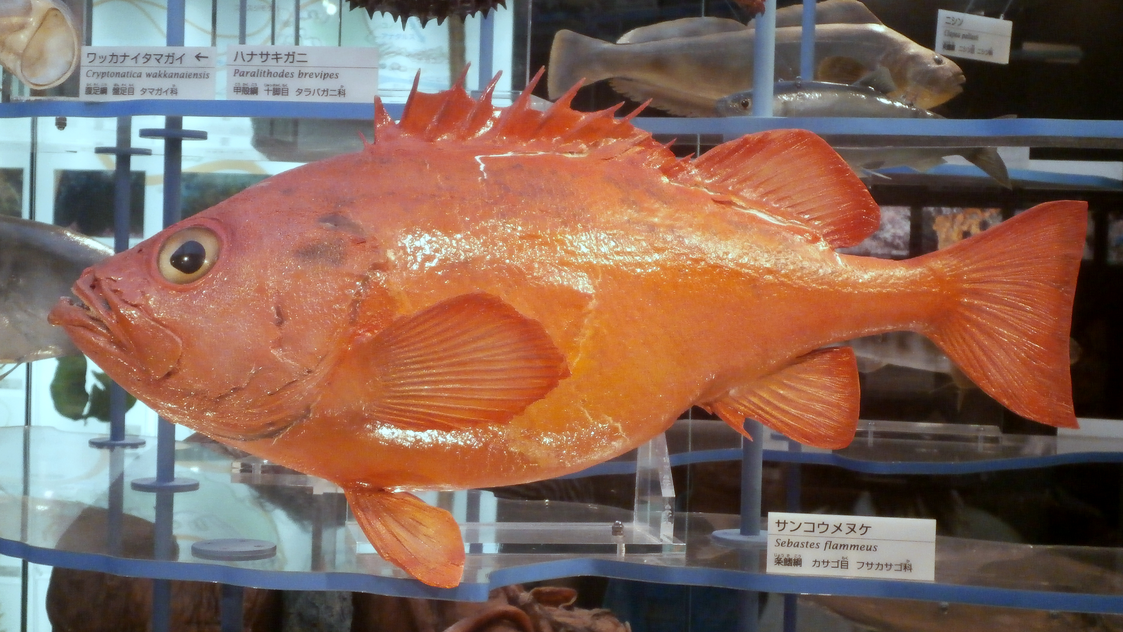 Stuffed specimen of Sebastes flammeus. Exhibit in the National Museum of Nature and Science, Tokyo, Japan.